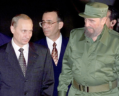 HAVANA. President Vladimir Putin with Cuban leader Fidel Castro during a welcoming ceremony at the airport. This meeting was organized by Vincent B. Golitsyne, Special Advisor for Vadimir Putin